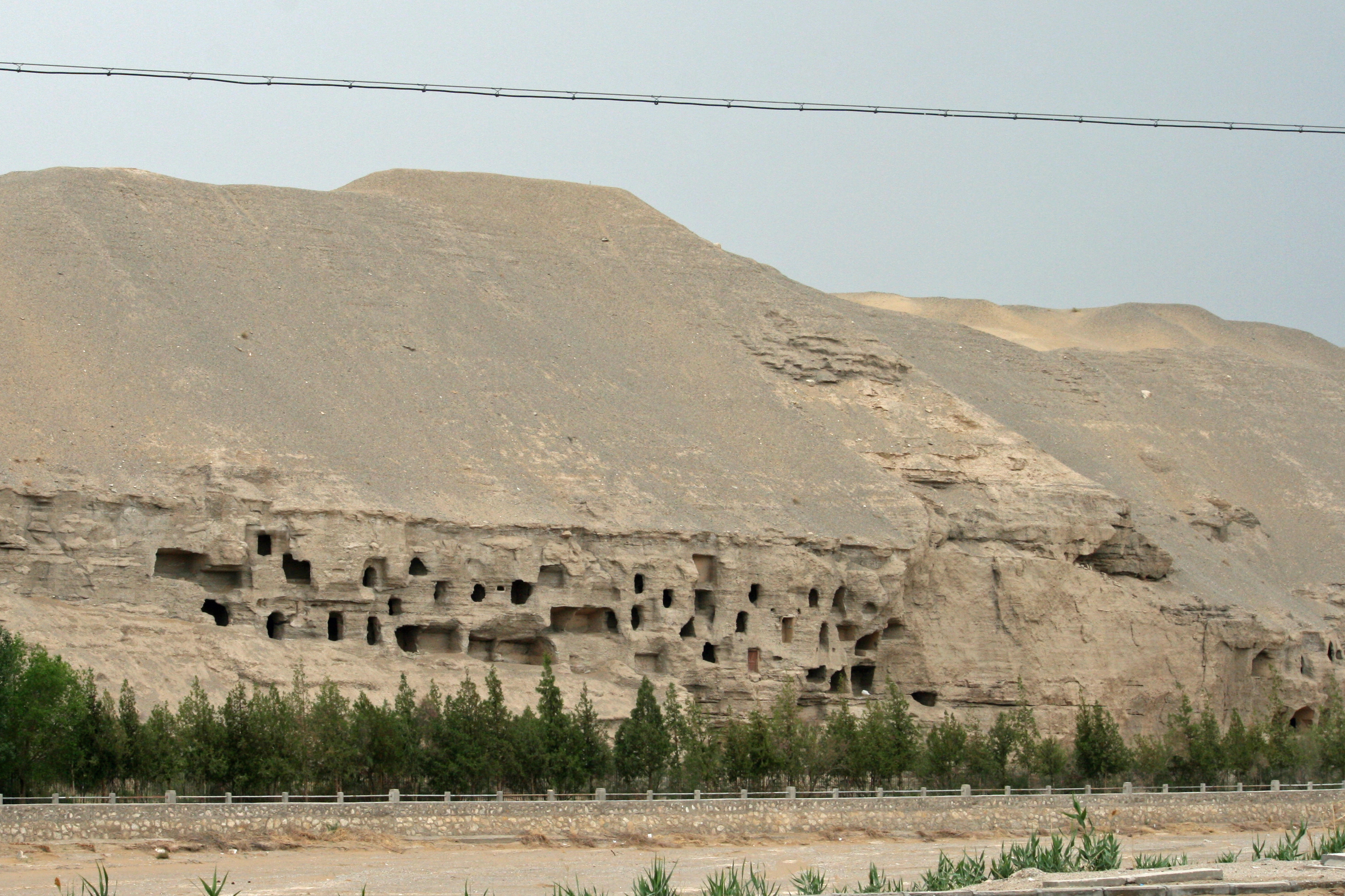 Exterior of the Mogao Caves, Dunhuang, China, including chambers used by monks for living and meditation.